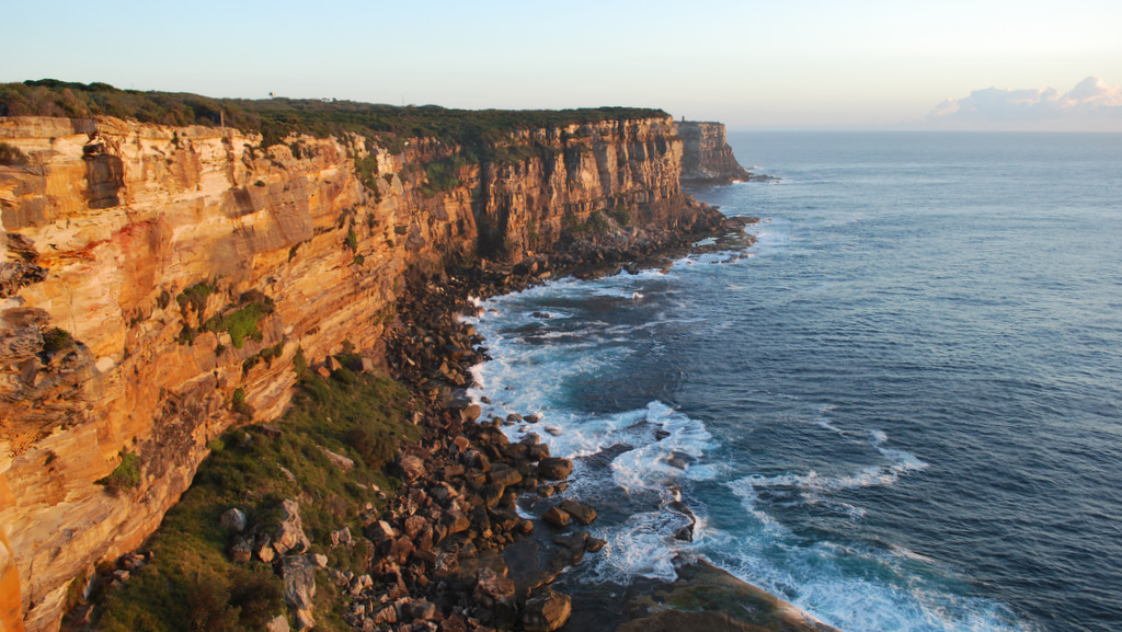 View from North Head Lookout